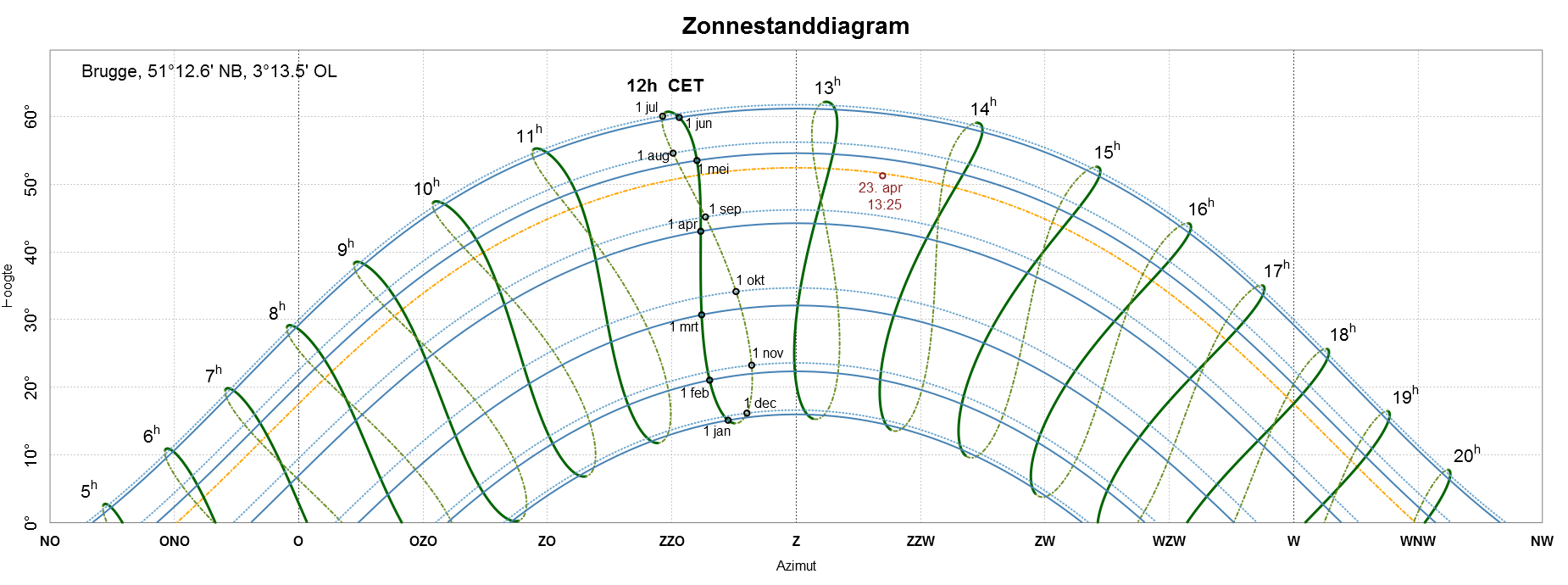 Cartesian diagram with the sun positions for Brugge, showing sunbows for the first day of the 12 months, analemmata for different hours, sun position at a certain day and hour, daybow for that same day.